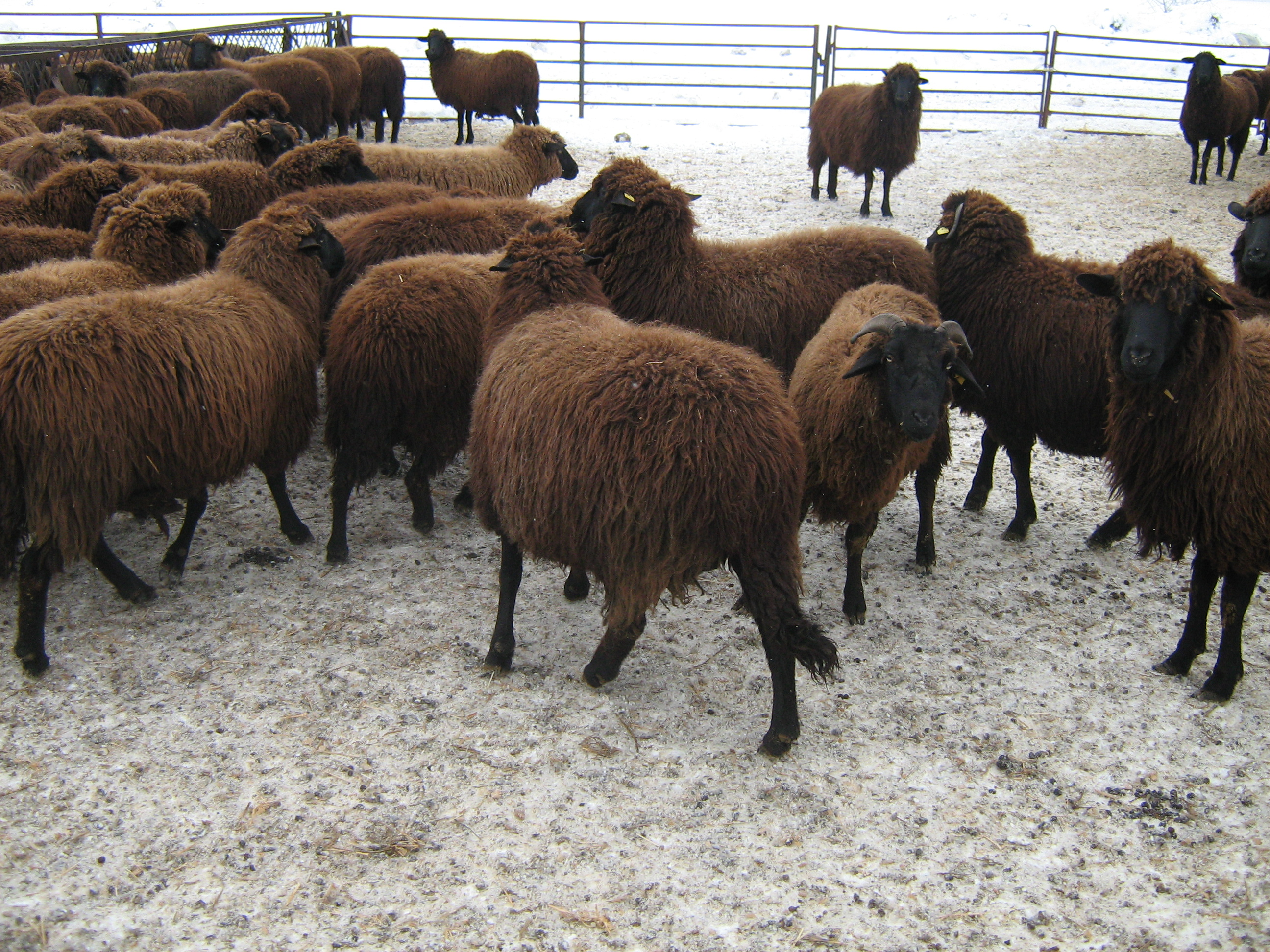 Copper-Red Shumen Sheep